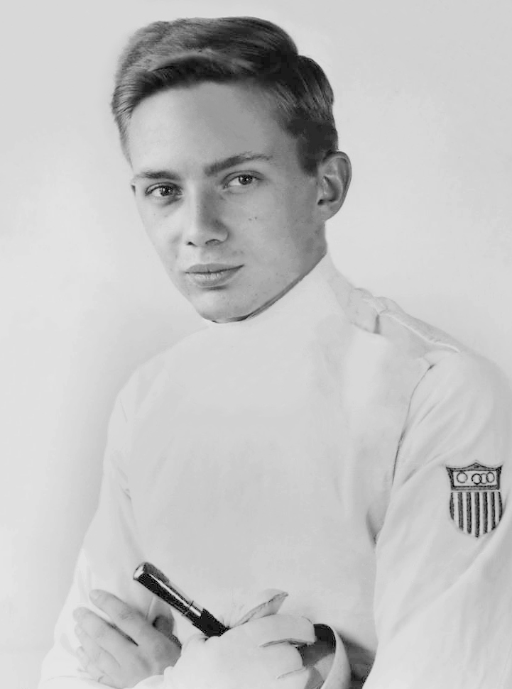 1948 Press Photo Donald G. Thompson, Olympic Fencing Team - cvb65130